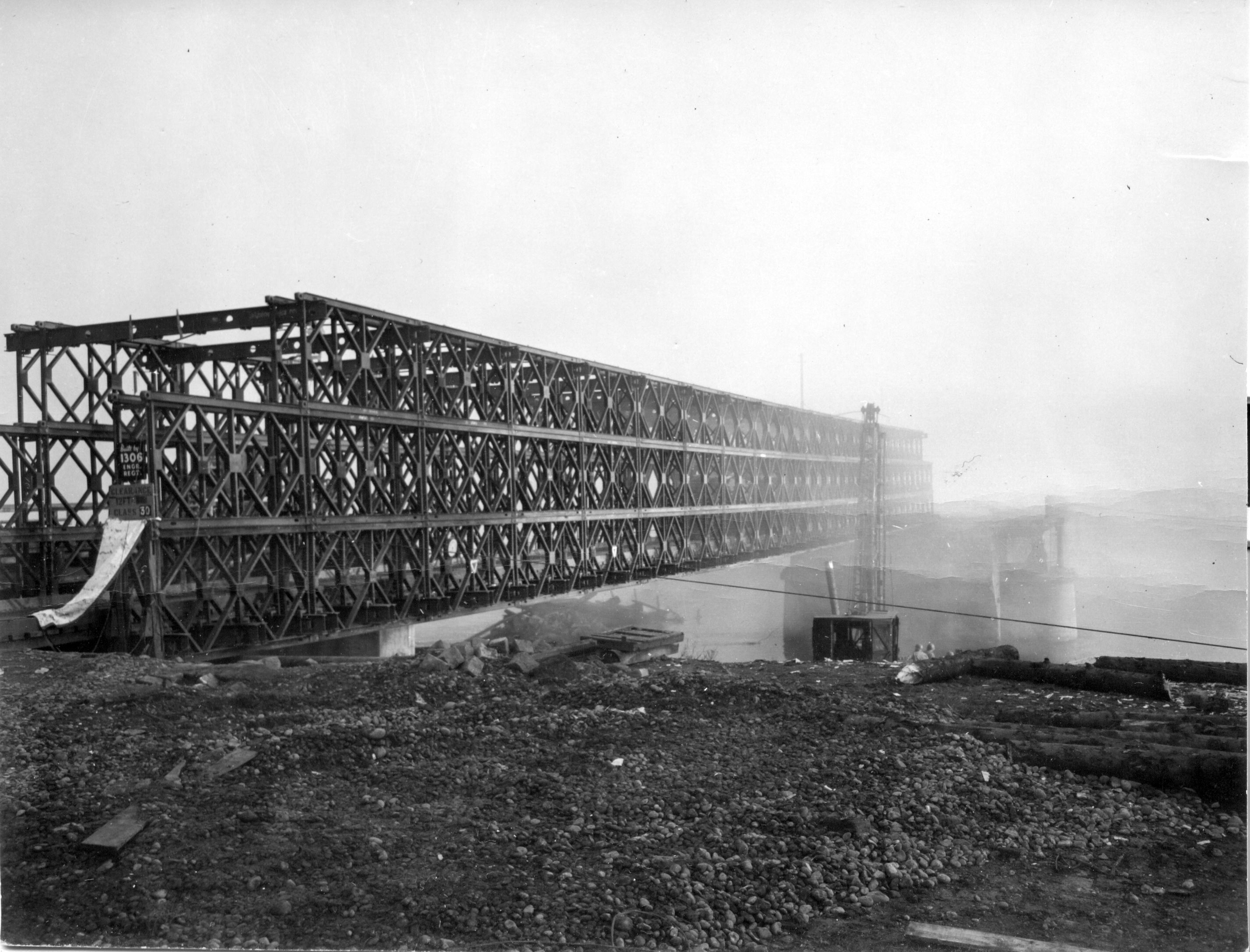 Bailey Bridge at Thionville, France built by 1306th Engineer General Service Regiment